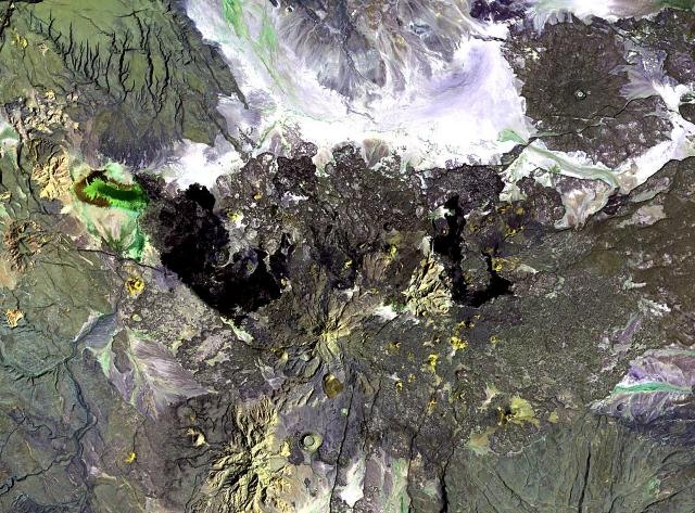 Gabillema is a rhyolitic stratovolcano along the axis of the Addado graben in Ethiopia. The summit of the volcano lies below and to the left of the center of this Landsat image. Rhyolitic lava domes are located on the flanks of the volcano, and a 5 x 17 km basaltic lava field that covers the Ado Bad (Ado Lake) Plain north of the volcano originated from a broad area of fissure vents and spatter cones on the north side of Gabillema volcano.